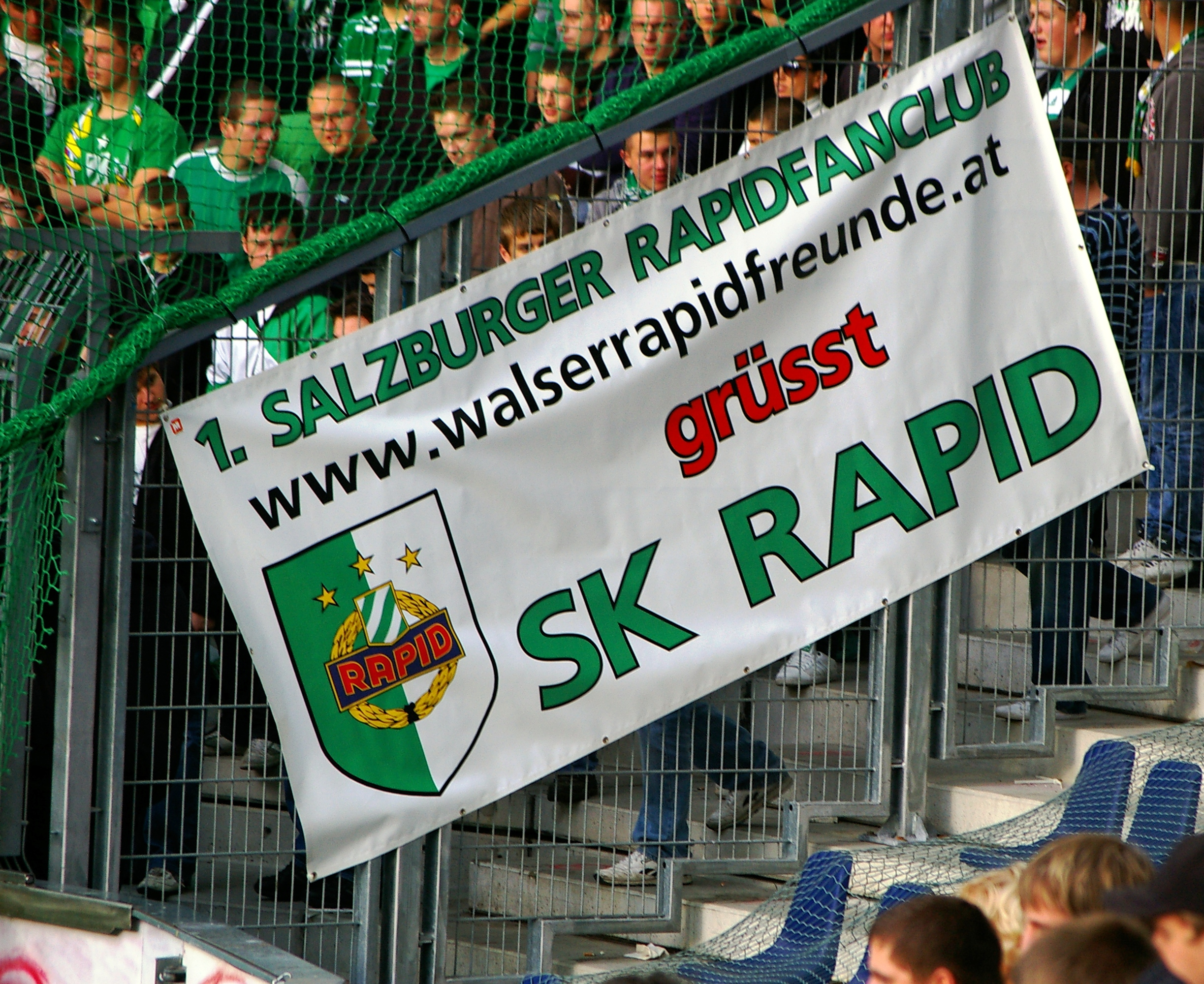 Supporters Rapid Wien from Salzburg